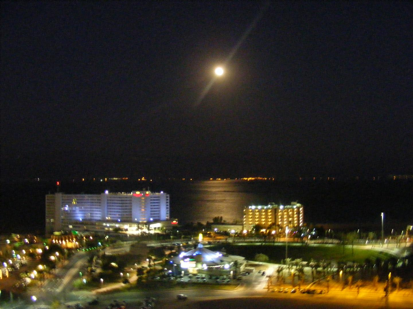 Dead sea , Geography of Israel